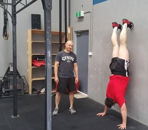 Maurice Novoa Ruiz practicing wall walks with his former coach Ben Poon at CrossFit Riseup in Melbourne, Australia